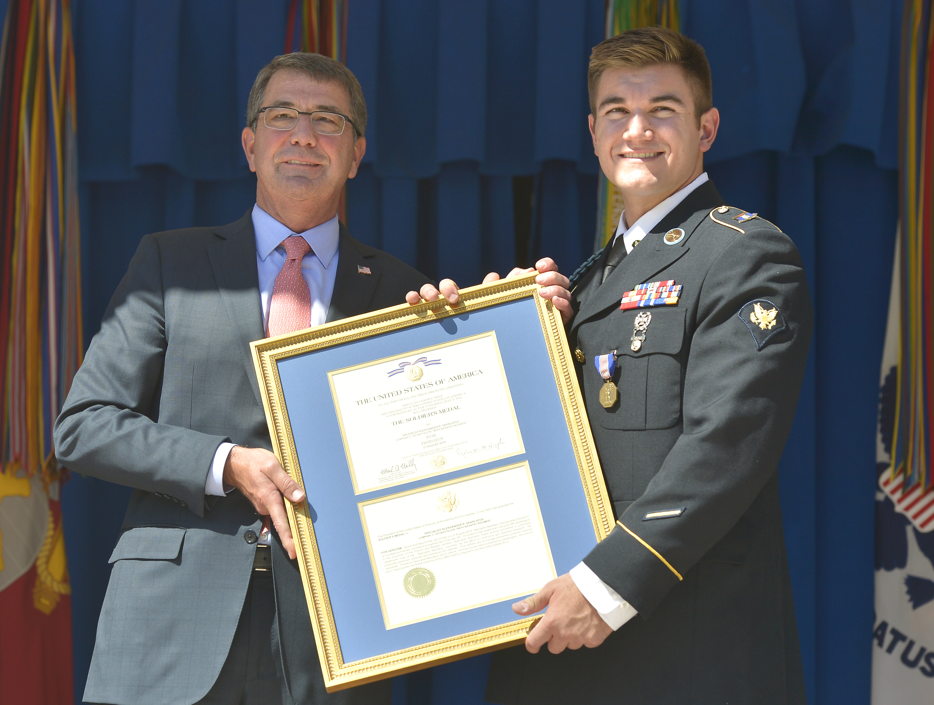 Secretary of Defense Ash Carter presents the Soldier's medal to Specialist Alek Skarlatos during a ceremony at the Pentagon Sept. 17, 2015, honoring him for his role in stopping a gunman on a Paris-bound train outside of Brussels last month. DoD Photo by Glenn Fawcett (Released)